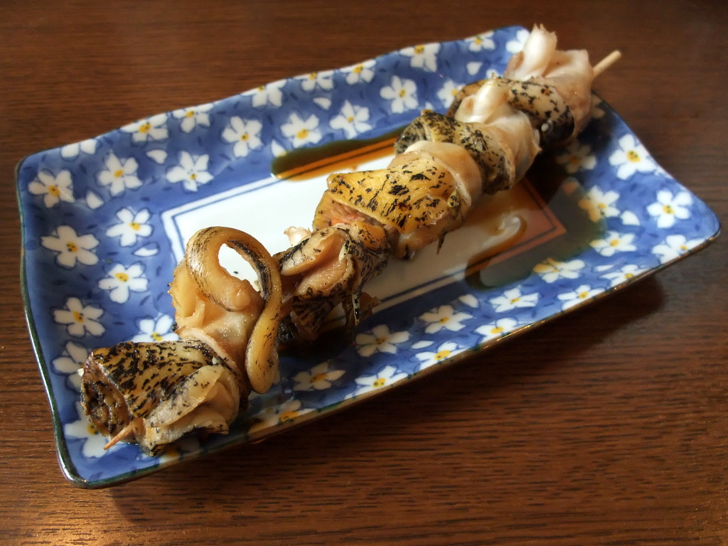 spiral shellfish on a skewer